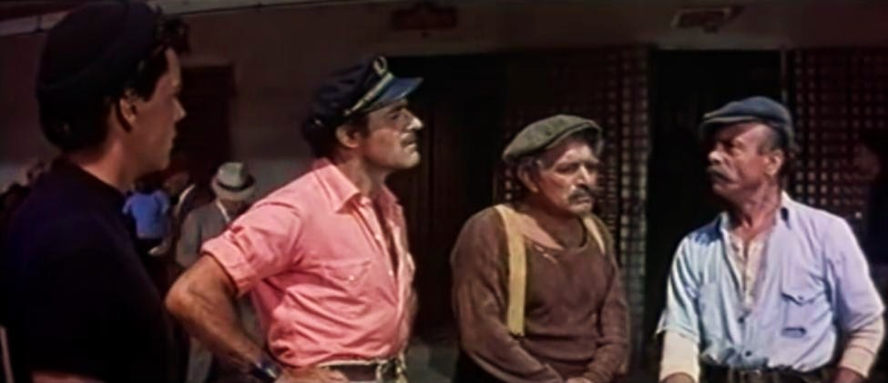 L. to R. : Robert Wagner, Gilbert Roland, J. Carrol Naish & Jay Novello in Beneath the 12-Mile Reef - cropped screenshot